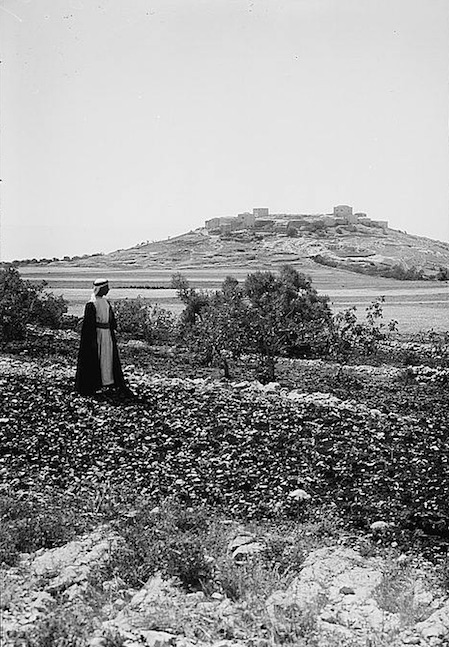 Rimmon, approximately 1900 to 1920